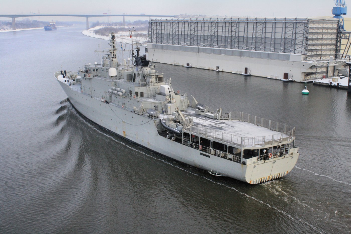 She was sailing eastwards through the Kiel Canal on 3 December 2010. There's a bit about her here.